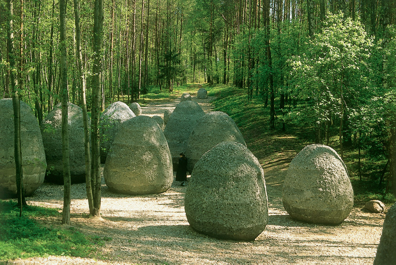 Space of Unknown Growth by Magdalena Abakanowicz in Open Air Museum of the Centre of Europe. Image for Wikipedia provided by Open Air Museum of the Centre of Europe, 2006. 800x536 pixels. True Color (24 bit). 1286400 Bytes.